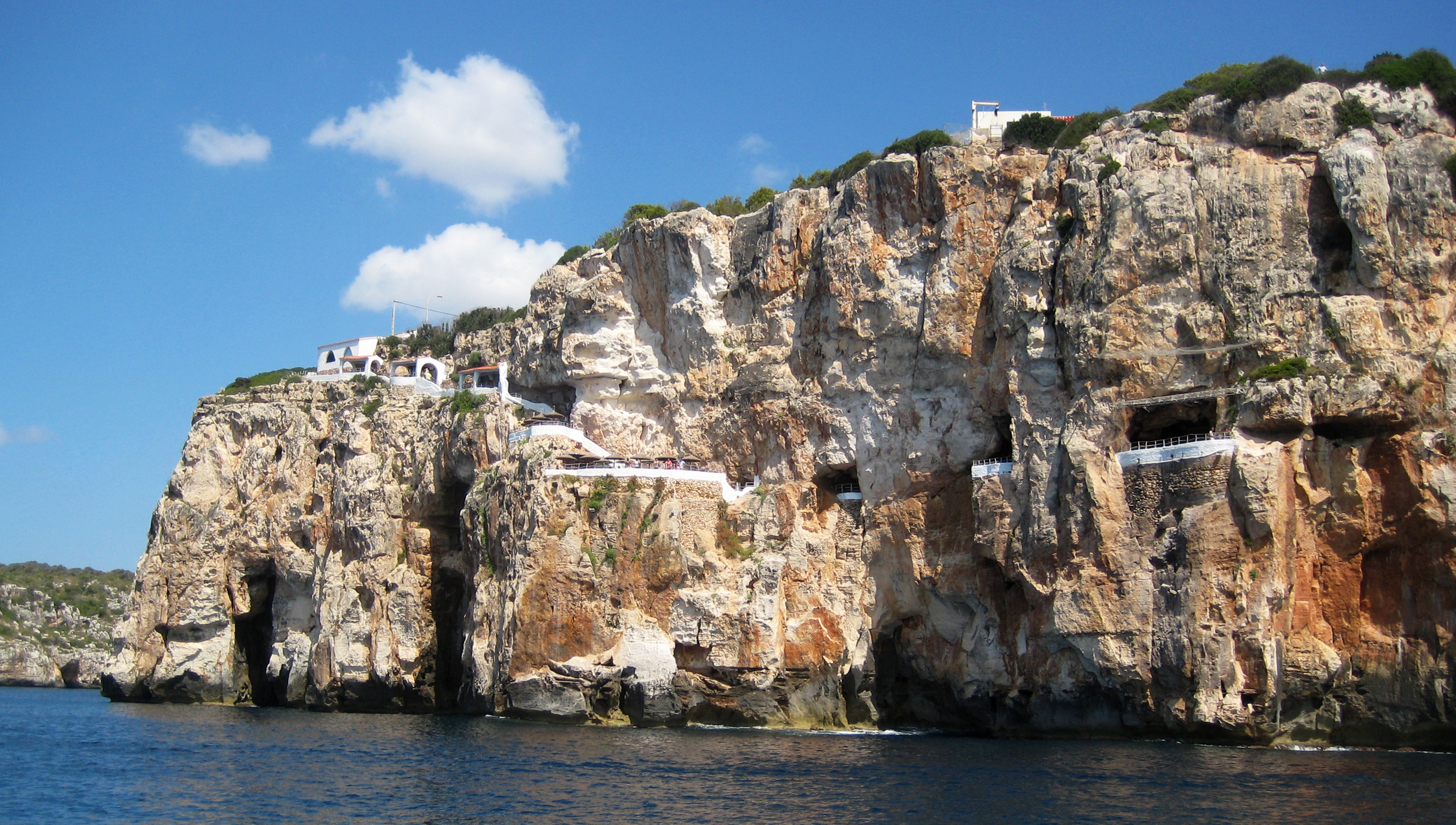 View of Cova d'en Xoroi from the sea